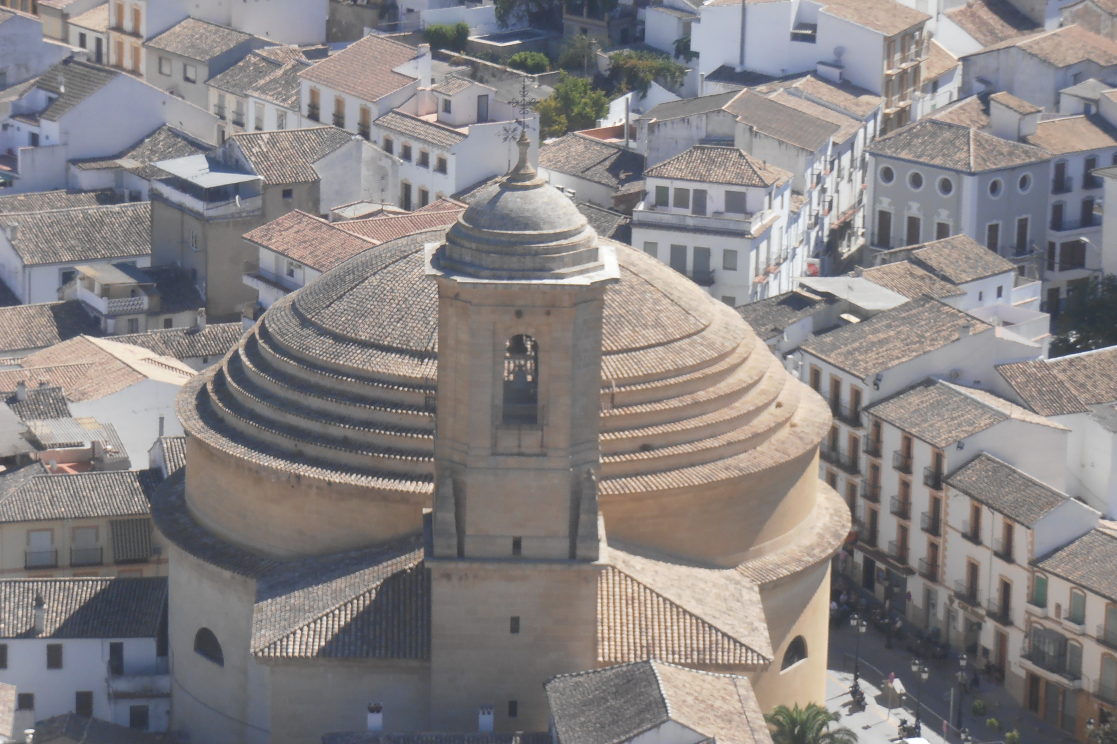 CHURCH OF MONTEFRIO. GRANADA.